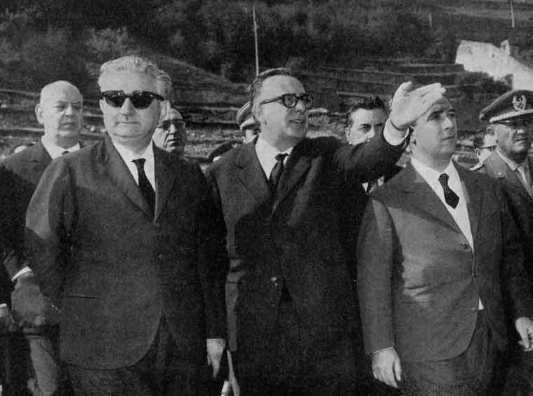 Leone visits the Vajont Dam